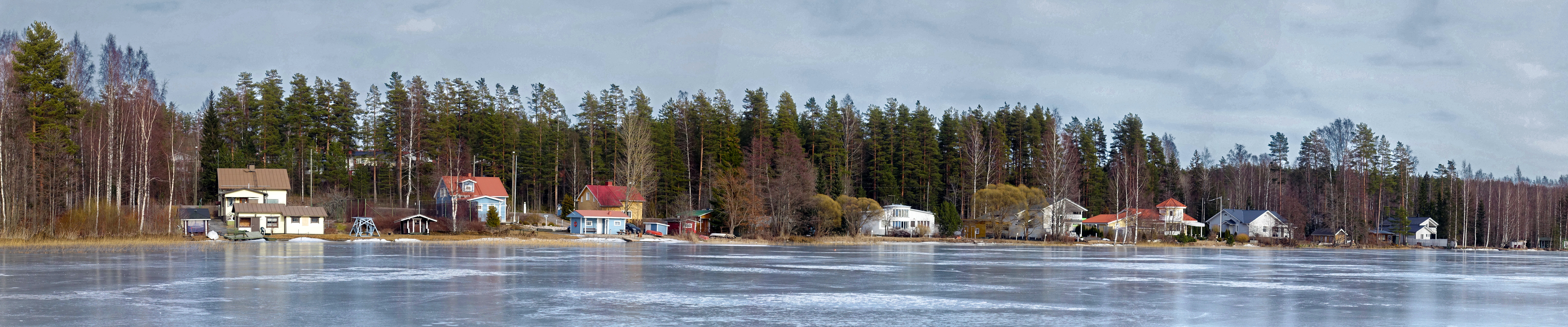 Houses on the shore of the lake Sääksjärvi, Jyväskylä.